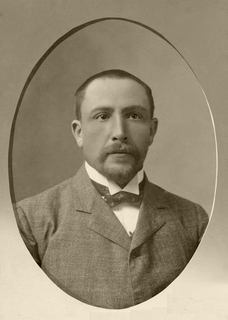 Picture of Hayim Aryeh Zuta